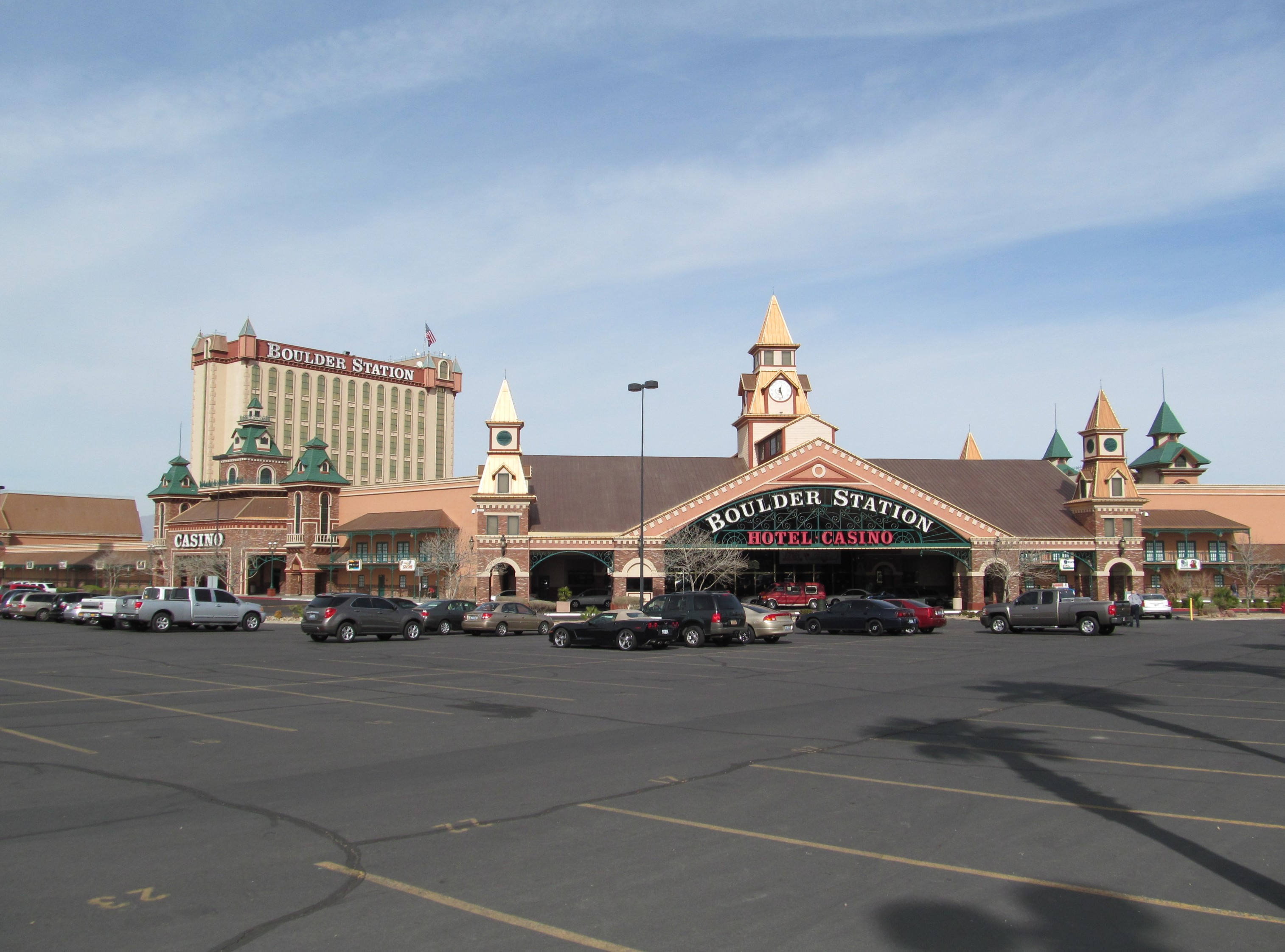 Boulder Station, Las Vegas Nevada